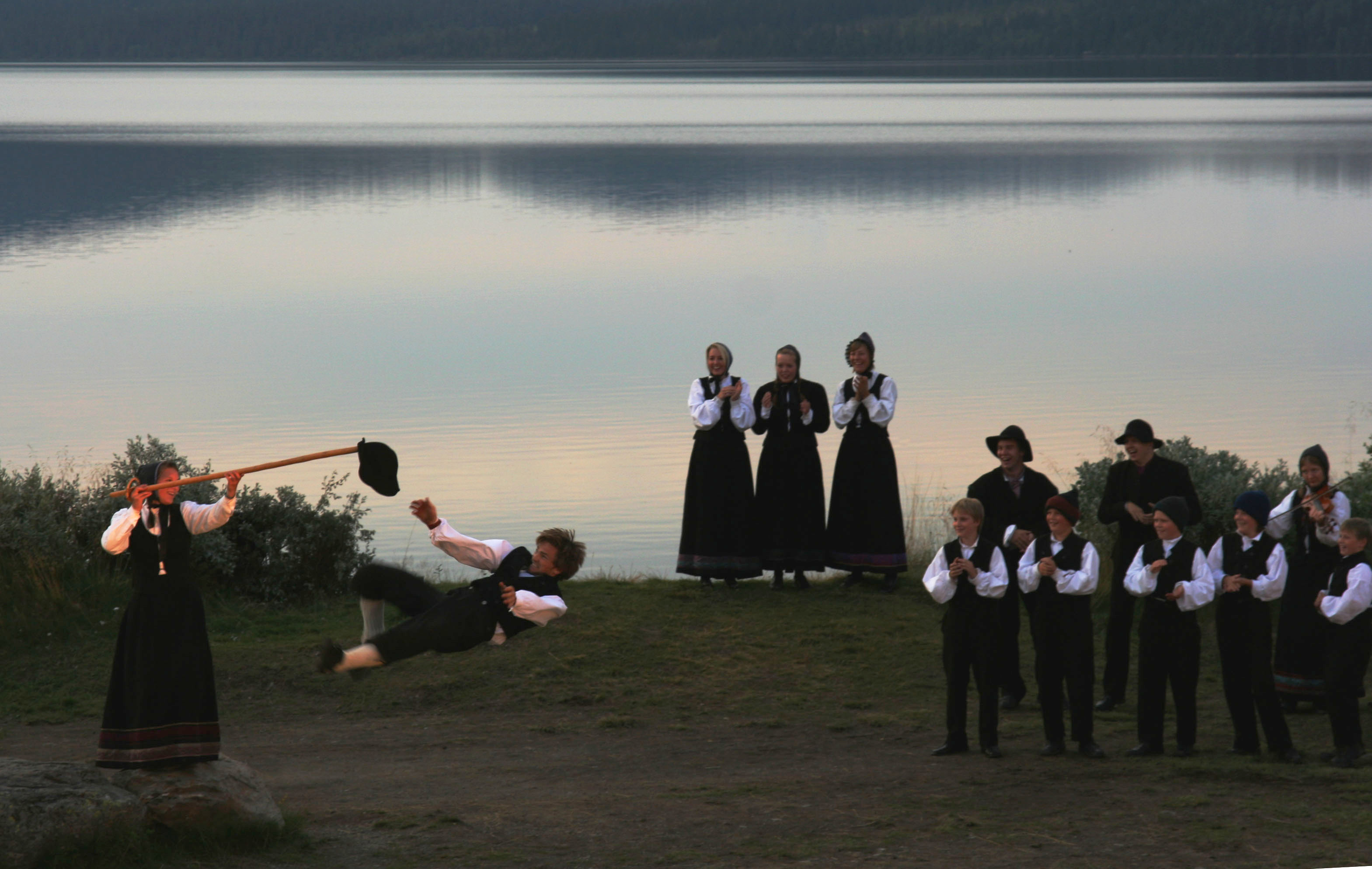 Young boy performing a hallinkast in a dancing scene from an outdoors performance of Peer Gynt at Gaalaavannet.